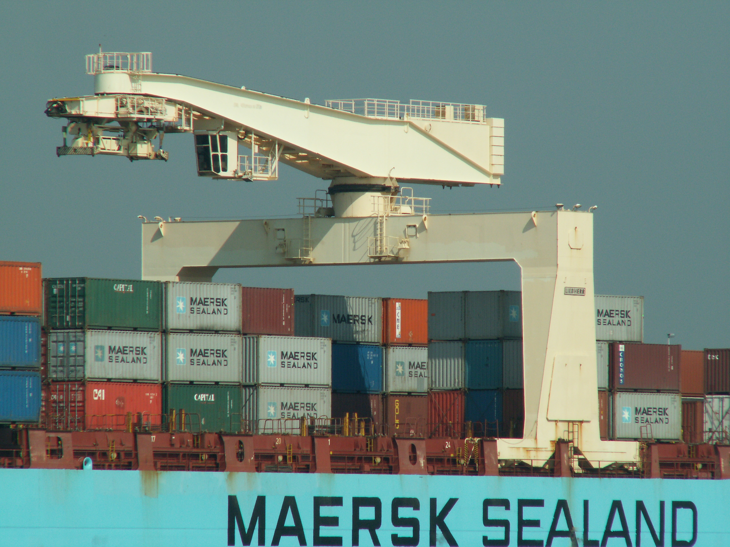 Cecilie Maersk - IMO 9064401 - Callsign OZEI2, astern Port of Antwerp 13-Sep-2005.